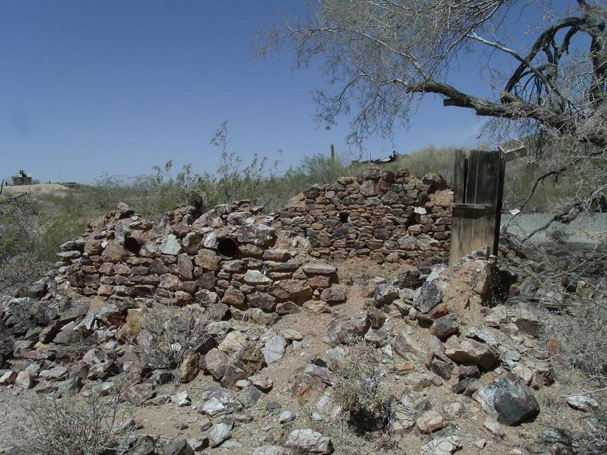 In 1863, after Henry Wickenburg discovered the Vulture Mine, Vulture City a small mining town was established in the area. The town once had a population of 5,000 citizens After the mine closed the city was deserted and became a “ghost town”. The mine and the ghost town are now a tourist attraction in Wickenberg, Arizona. This image is of the ruins of Henry Wickenburg's settlers home in Vulture City